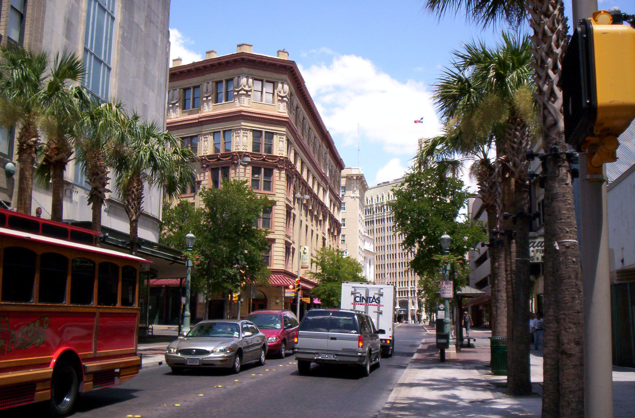 Houston Street, The San Antonio (Texas) Downtown.